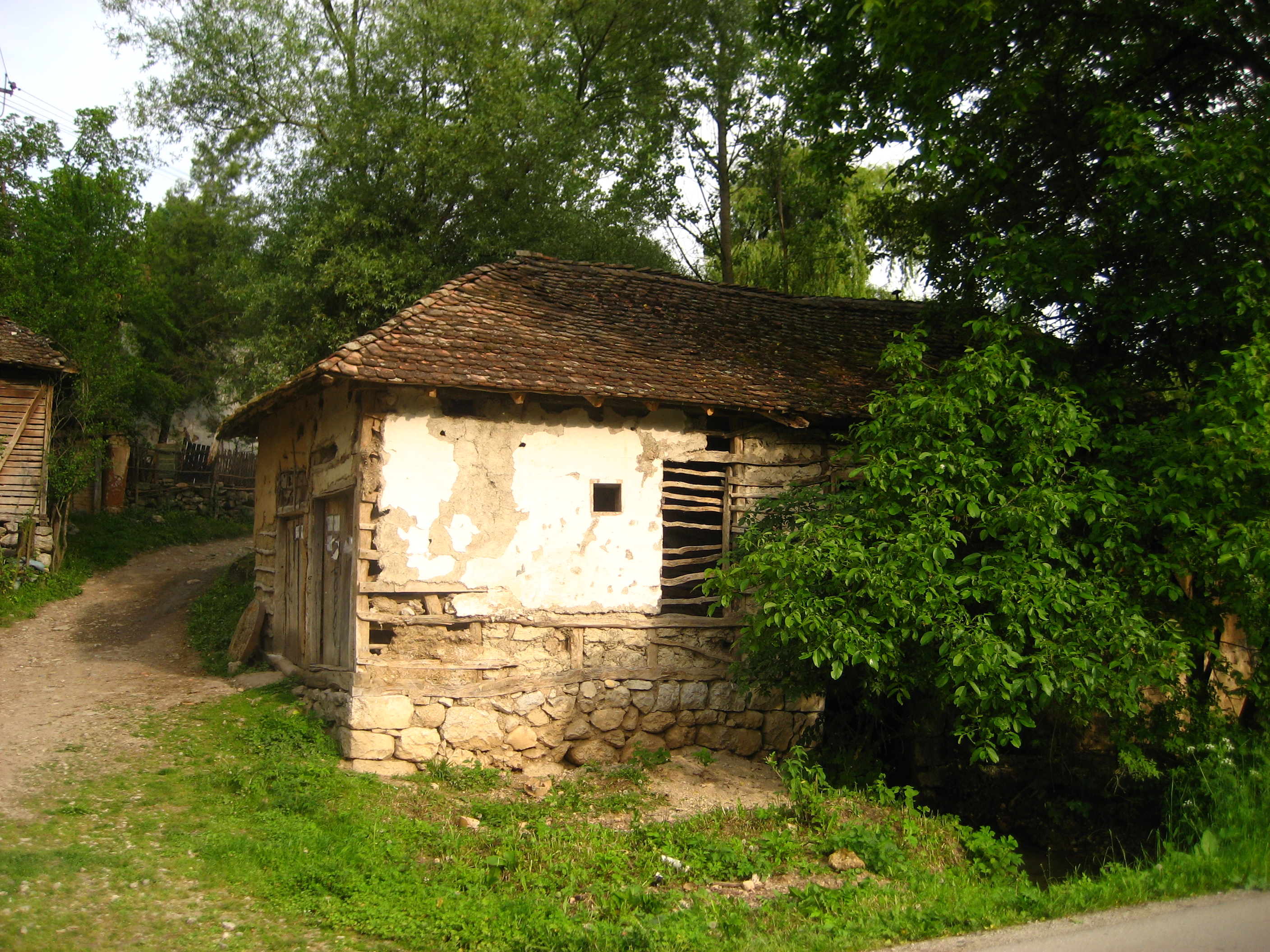 A mill in Donja Koritnica, near Bela Palanka, Serbia